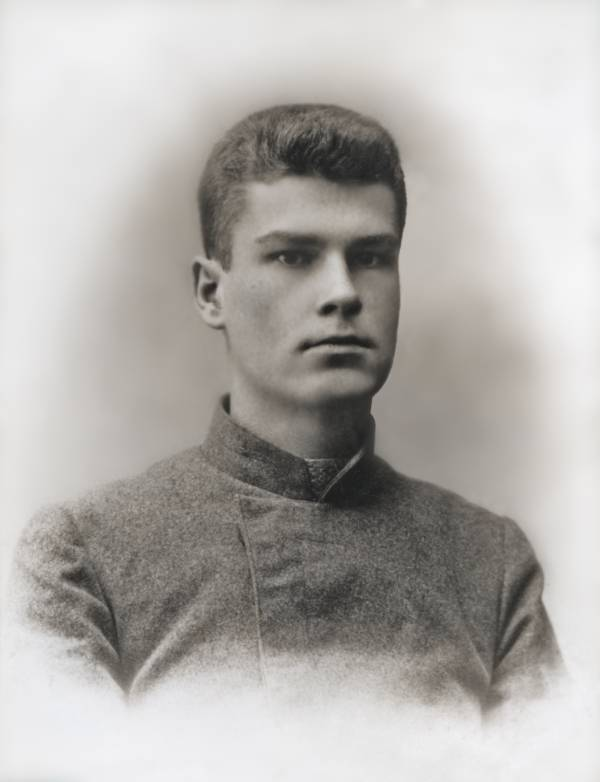 Photo of belarusian writer Maksim Bahdanovich (ca 1910-1911)